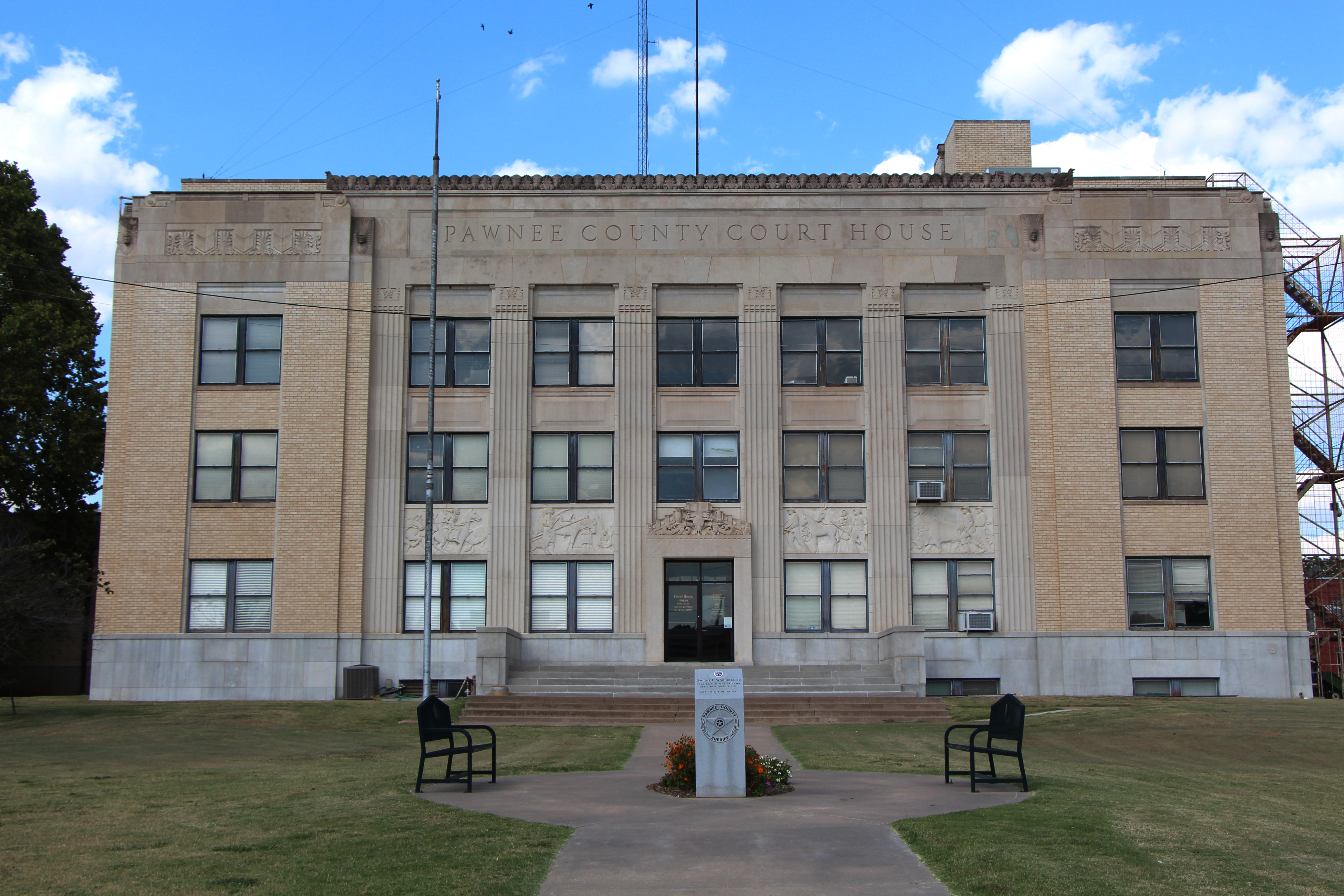 Pawnee Courthouse, facing north